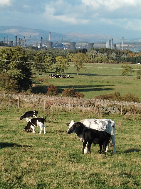 From the Union Canal. The mix of rural and industrial typifies this stretch of the Union Canal. Looking north from the canal towpath across fields to the Grangemouth refineries and the Ochil Hills beyond.